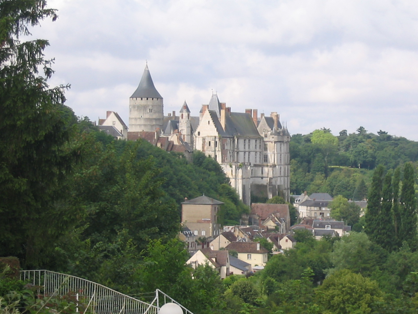 Chateaudun castle overview , France.